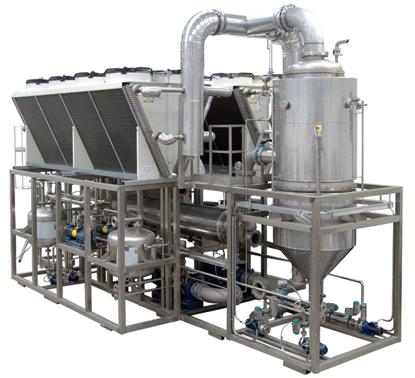 Vacuum evaporation plants